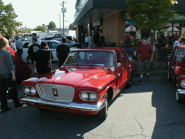 1960 Plymouth Valiant